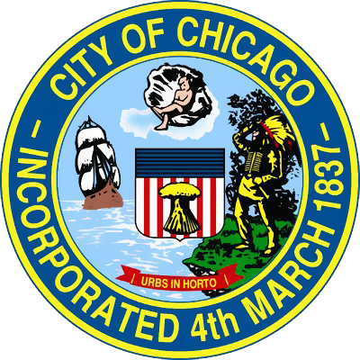 This image is a copy of the official seal of the City of Chicago, Illinois, as designed and adopted by the City in 1905. As such, it is a work authored before 1922, and is therefore in the public domain. An 1895 edition of the seal can be seen here. This image is in the public domain due to its age.